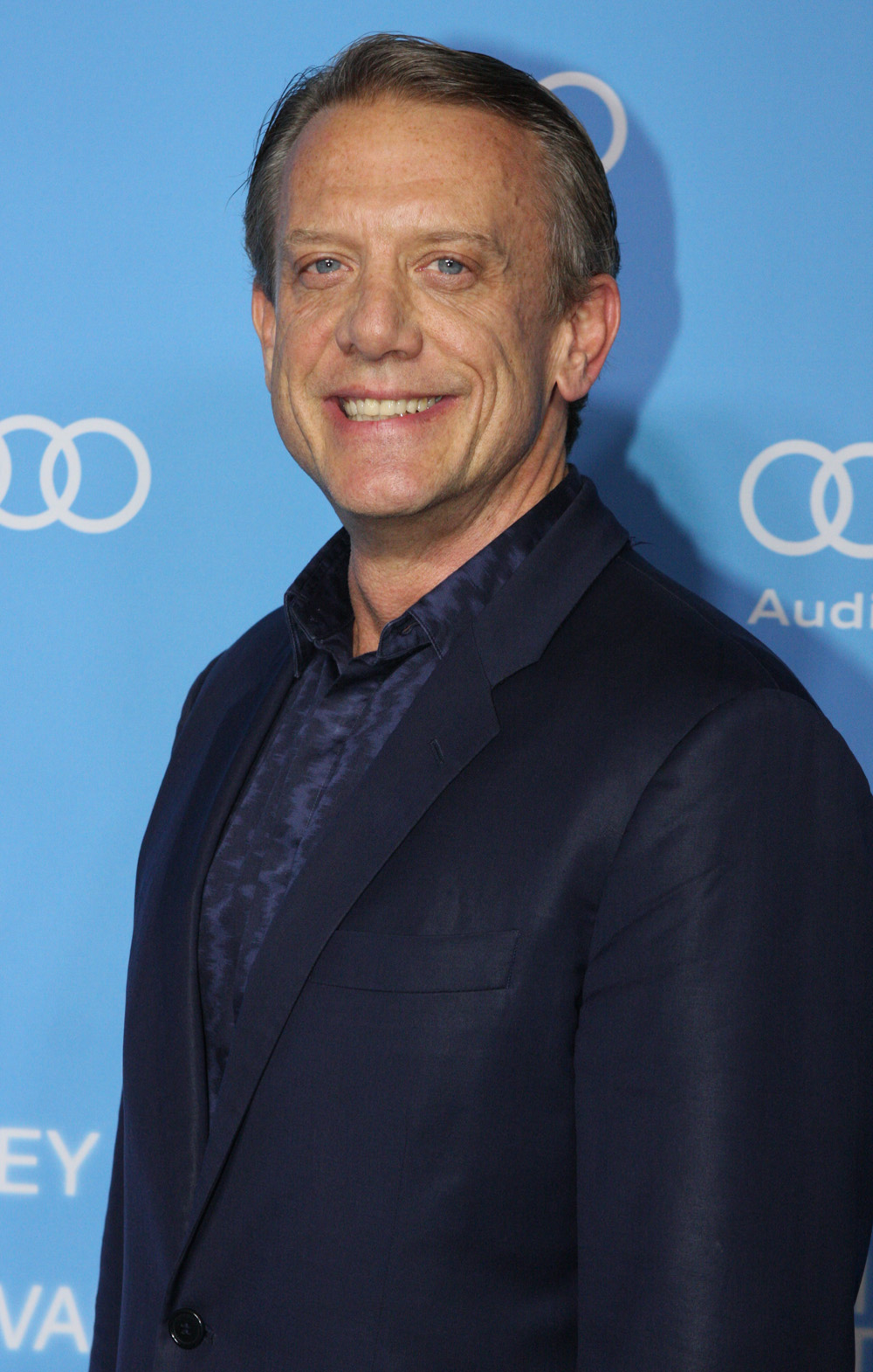 The Way Way Back Australian Movie Premiere - Toni Collette At State Theatre, Sydney, Australia - 6th June 2013 'The Way Way Back' enjoyed its Sydney red carpet premiere tonight at the beautiful State Theatre. The movie is part of the current Sydney Film Festival, which has thousands of Sydney movie lovers braving the cold and wet weather than this season is shedding upon Sydney. Promo: Funny, smart and uplifting, The Way, Way Back is a well-crafted coming-of-age comedy with winning performances by a stellar cast. Fourteen-year-old Duncan (Liam James) is forced to spend the summer vacation with his mother Pam (Toni Collette), her condescending boyfriend Trent (Steve Carell) and his mean-girl daughter. Constantly humiliated, Duncan struggles until he meets Owen (Sam Rockwell, in arguably his best performance), the manager of a somewhat dishevelled Water Wizz water park. Rebellious, relaxed, and very funny, Owen pokes fun at Duncan, but at the same time gives him the confidence to stand up for himself and find his place in the world. Directors Jim Rash and Nat Faxon are the Oscar®-winning writers of The Descendents and both accomplished actors themselves - Rash in Community and Faxon in Ben and Kate. Here they have made a heartwarming, inspiring and hilarious film. Plot Outline During a vacation in a Northeast beach town, a lonely teenage boy, Duncan (Liam James), comes into his own over the course of a summer through an unlikely friendship with the manager of a local water park (Sam Rockwell). Duncan’s mother, Pam (Toni Collette), alienates her young son through her determined efforts to make her relationship work with her carousing boyfriend (Steve Carell) whose disingenuous attempts to build a family are immediately transparent to Duncan. Sydney Film Festival screenings: Thursday 6 June, 9:30 PM State Theatre Monday 10 June, 4:15 PM Event Cinemas George Street Websites The Way Way Back Facebook State Theatre Sydney Film Festival Eva Rinaldi Photography